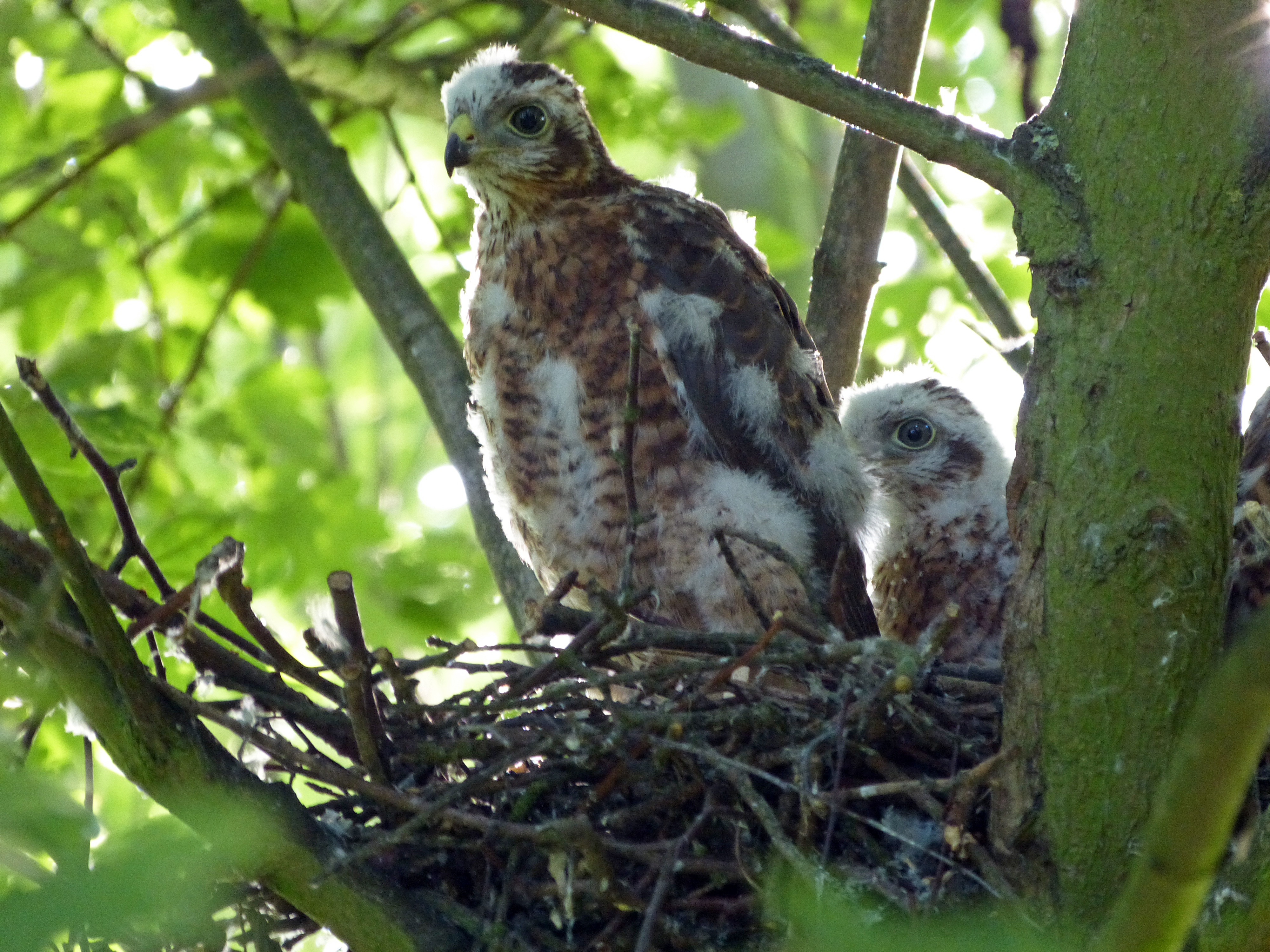 I counted 4 chicks Latin name Accipiter nisus Family Hawks, vultures and eagles (Accipitridae) Overview Sparrowhawks are small birds of prey. They're adapted for hunting birds in... Where to see them ... When to see them At any time of year; you might see birds displaying to each other in early... What they eat ...